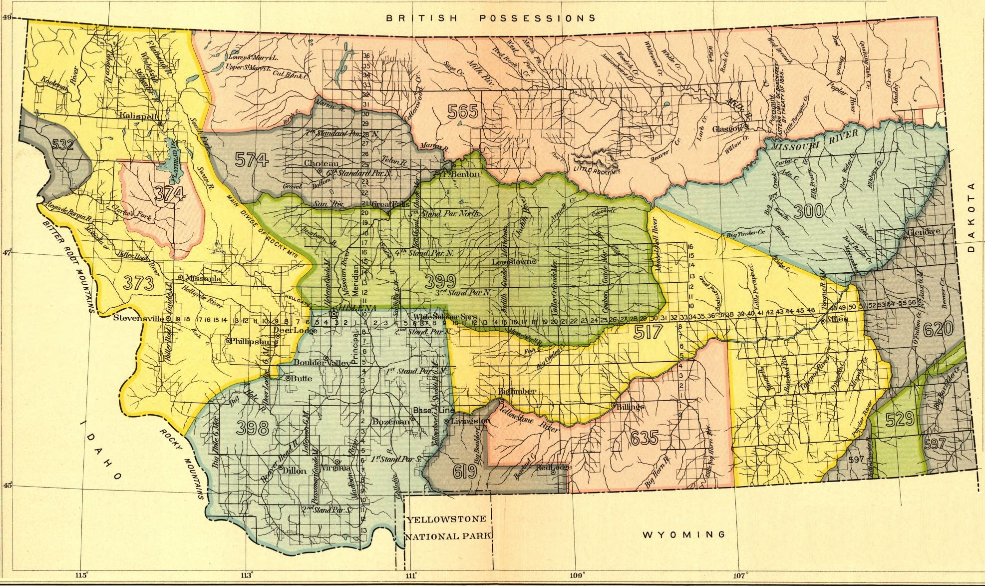 Early Indian treaty territories in present-day Montana